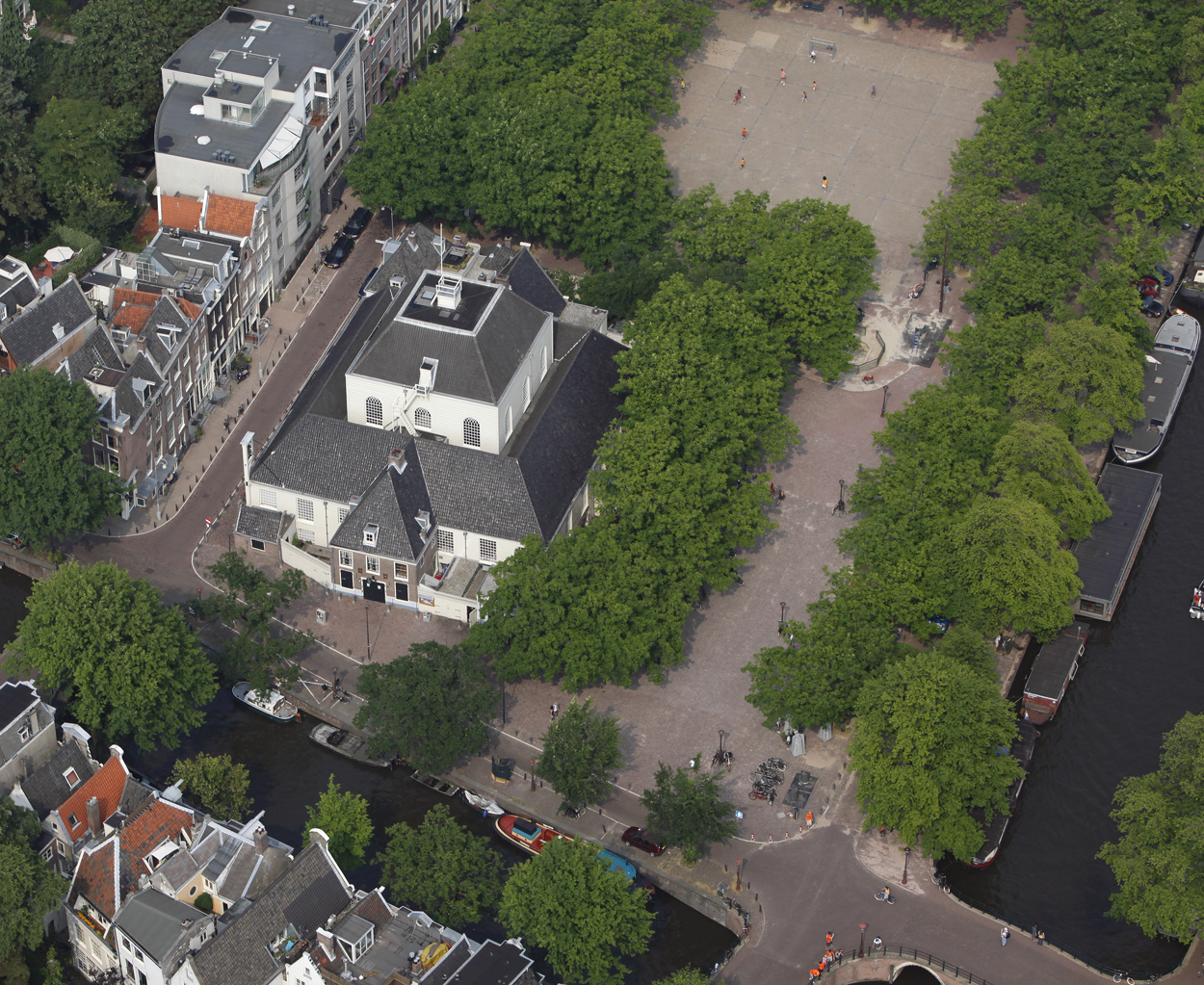 Amstelchurch at the Regulierscanal in Amsterdam, as seen from air